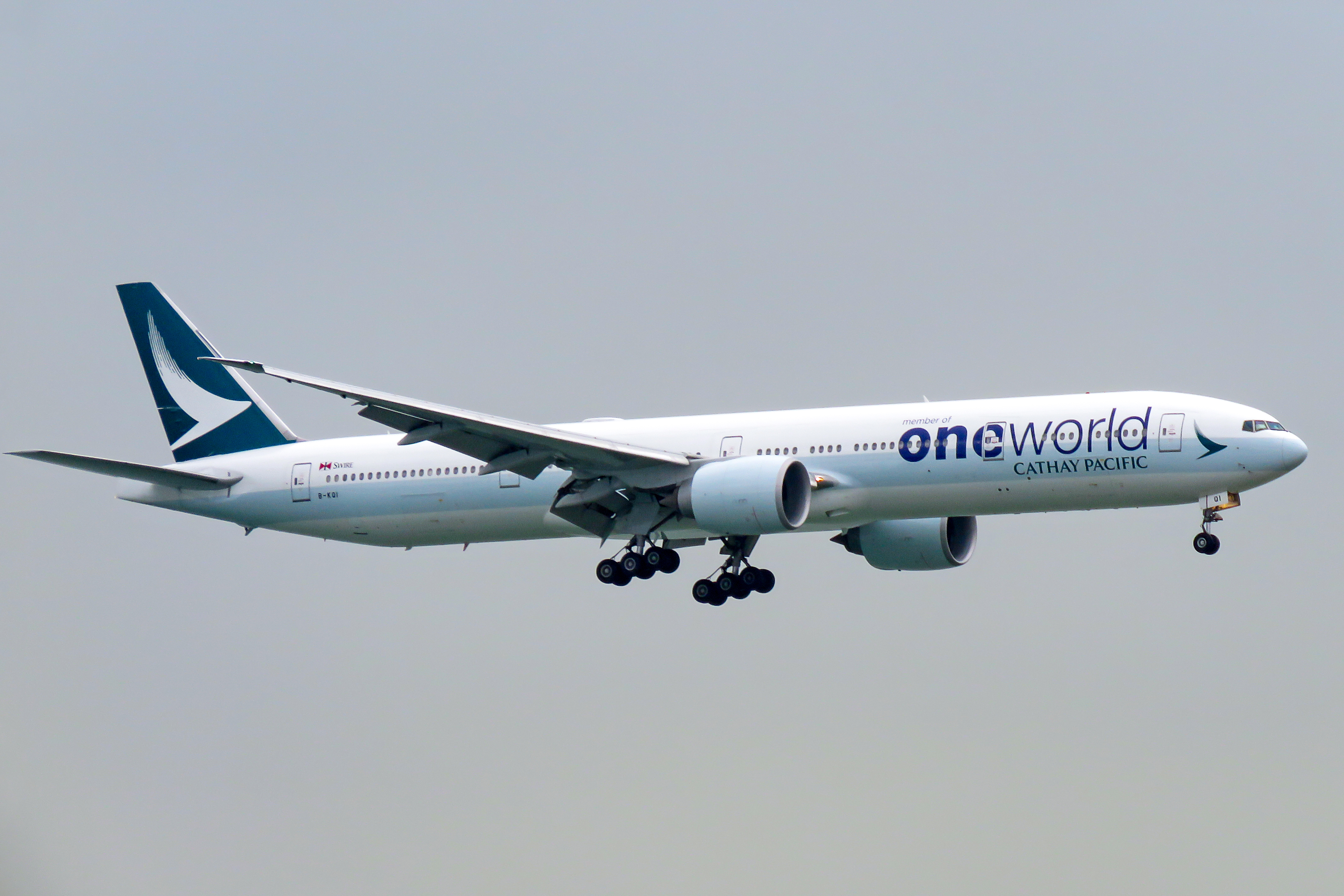 Cathay 250 from London. Yesterday, B-KQL also received Oneworld livery and it went to CX828/825 HKG-YYZ flight. The Toronto route has no first class... don't expect KQL to visit Beijing!